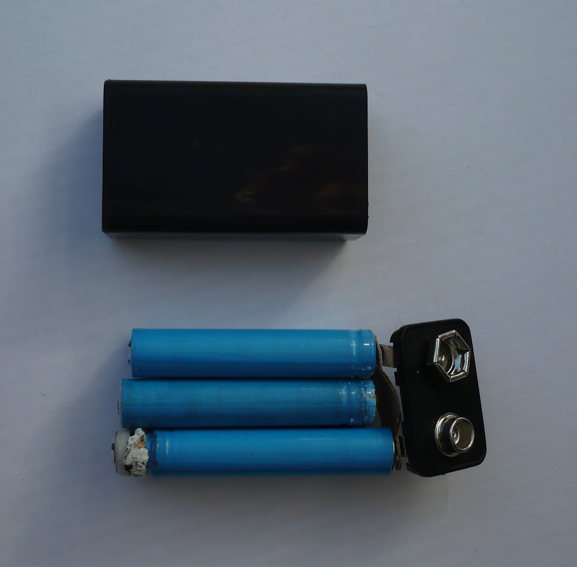 Photo of a disassembled leaking 9V-block, top the housing, bottom the cells. The leaking cell is clearly visible. The middle cell is also slightly leaking on the right. The block is composed of 6 spot-welded AAAA batteries: Voltage of the defective cells 0.0 Volt, the others have approx. 1.2 V. Diameter ⌀ 7.9 mm Length 39.5 mm (measured without the elevation at the positive pole)